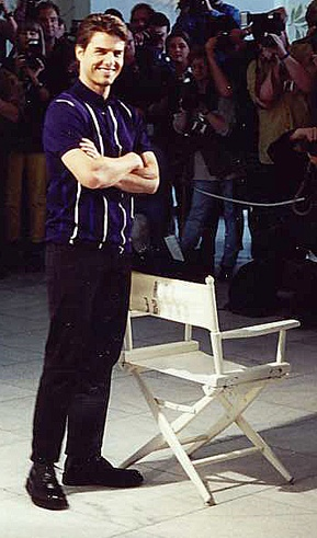 Tom Cruise at a press conference featuring the movie "Mission Impossible 1" at the Kempinski Hotel Atlantic in Hamburg/Germany